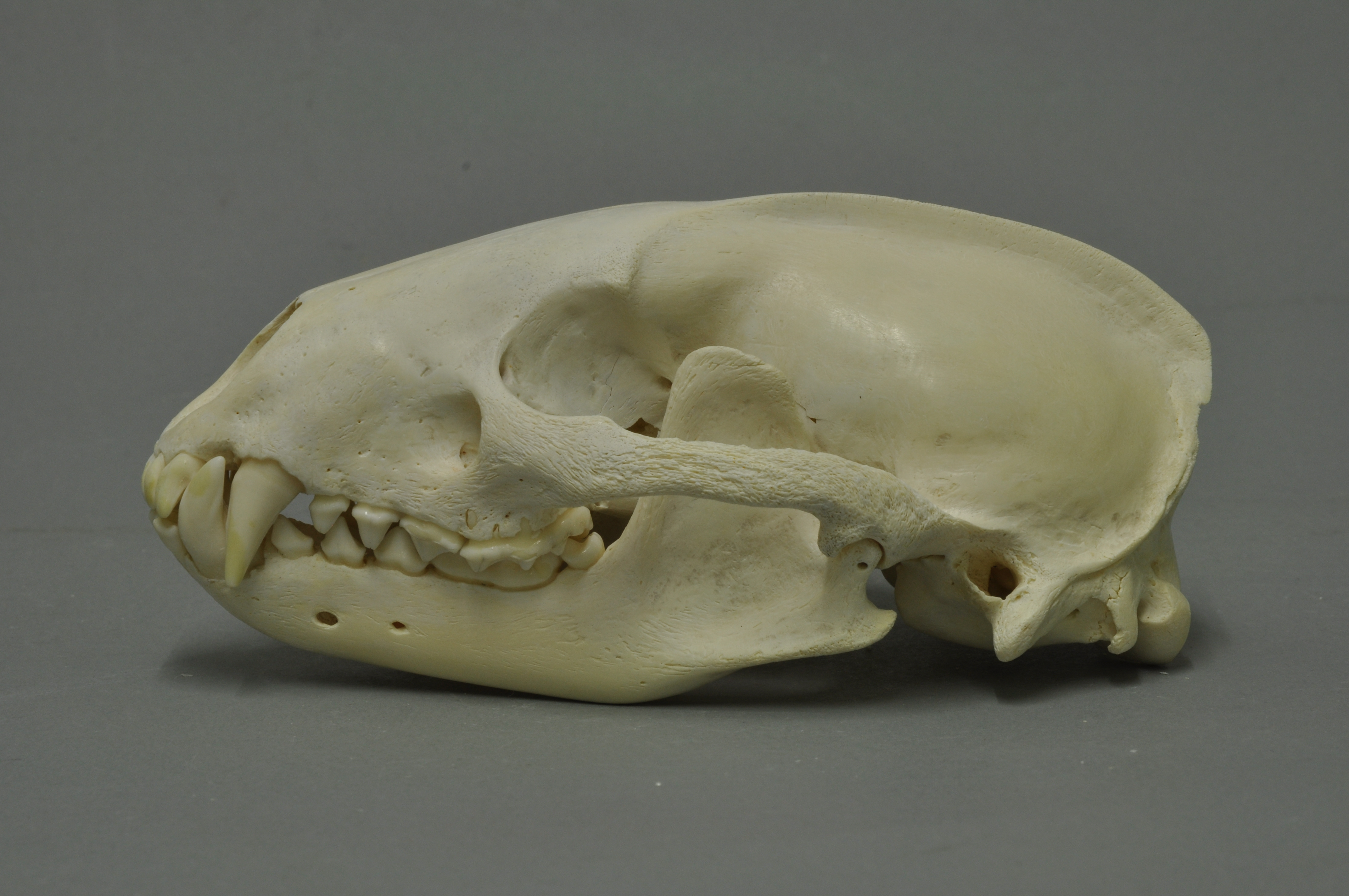 European badger Meles meles , skull, Coll. Museum Wiesbaden